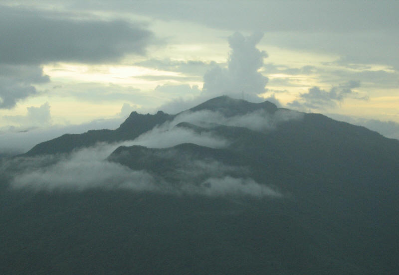 Aerial view to El Yunque Peak, El Yunque National Forest, Sierra de Luquillo, Puerto Rico